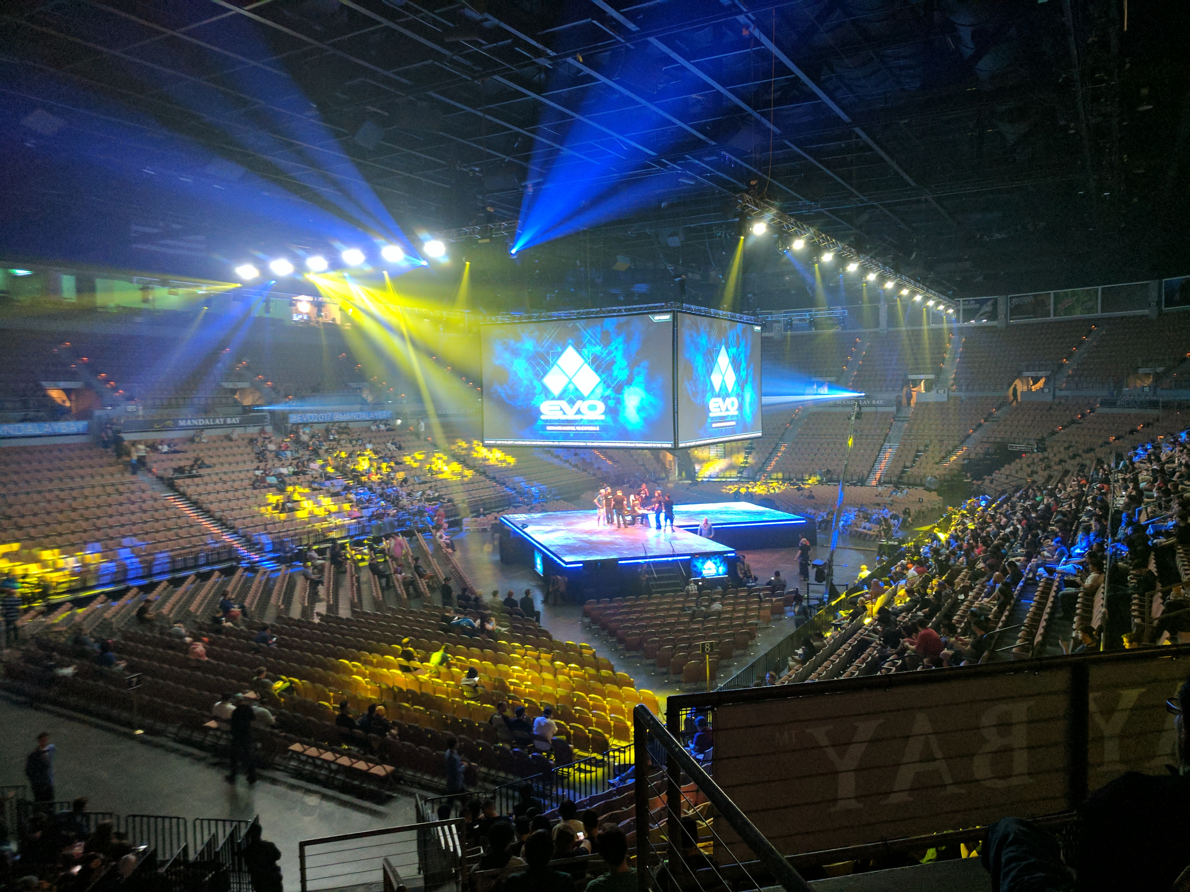 Picture of the Mandalay Bay Events Center hosting the final day of Evo 2017.